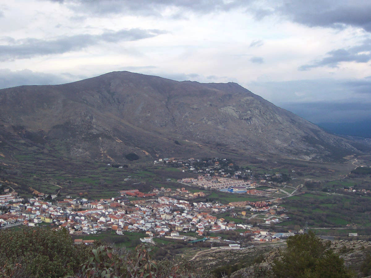 View of Bustarviejo (Madrid) and Cabeza Cervunal (wrongly known as Mondalindo) from El Pendón